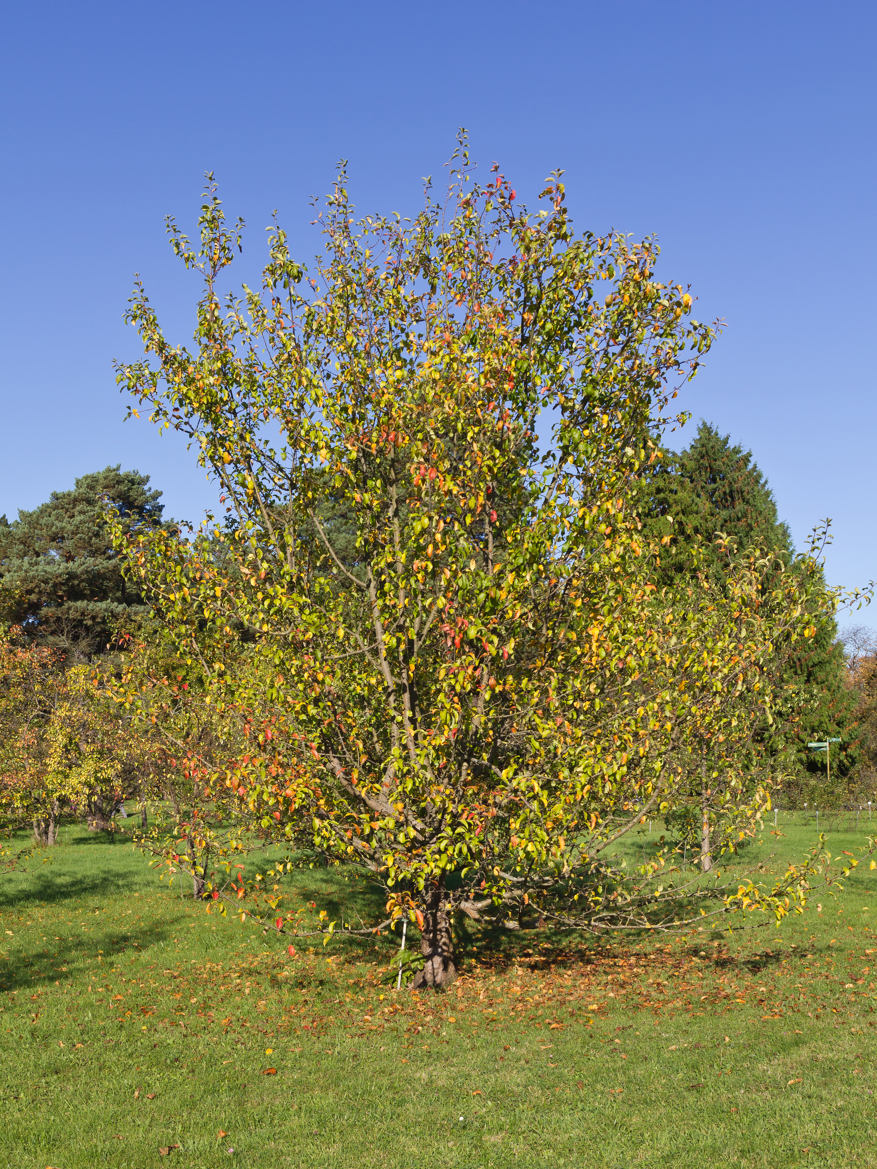 Berlin-Dahlem Botanical Garden in autumn 2014 / Malus sieversii